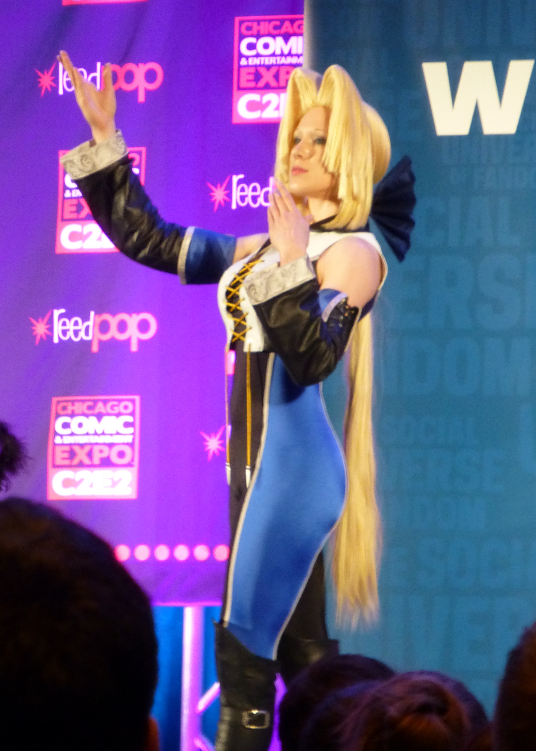 Noelle d'Arda cosplaying as Helena Douglas (from Dead or Alive) in the First Annual Chicago Comic & Entertainment Expo (C2E2) Crown Championships of Cosplay in 2014.